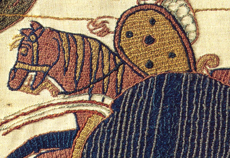 Detail of image:Odo_bayeux_tapestry.png